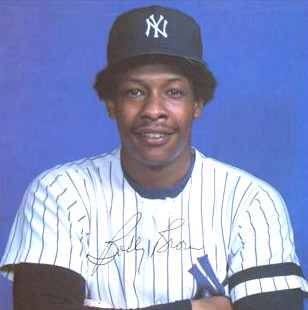 Professional baseball player Bobby Brown during the 1981 season as a member of the New York Yankees.